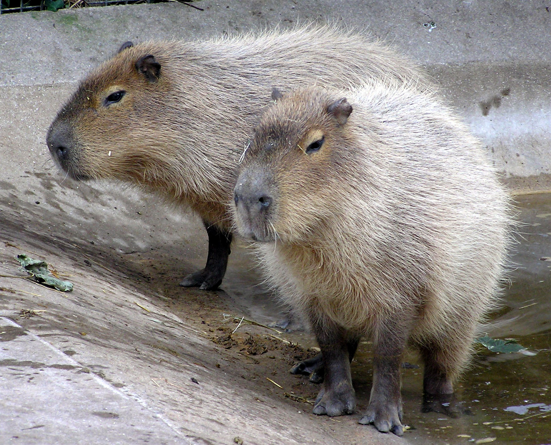 Capybara Hydrochoerus hydrochaeris at the Zona Brazil exhibit at Bristol Zoo, Bristol, England. The world's largest living rodent. Semi-aquatic, swims and dives with ease. Inhabits South America from Panama to northern Argentina. Lives in lowland and wetland. Eats grasses, aquatic plants and grains.